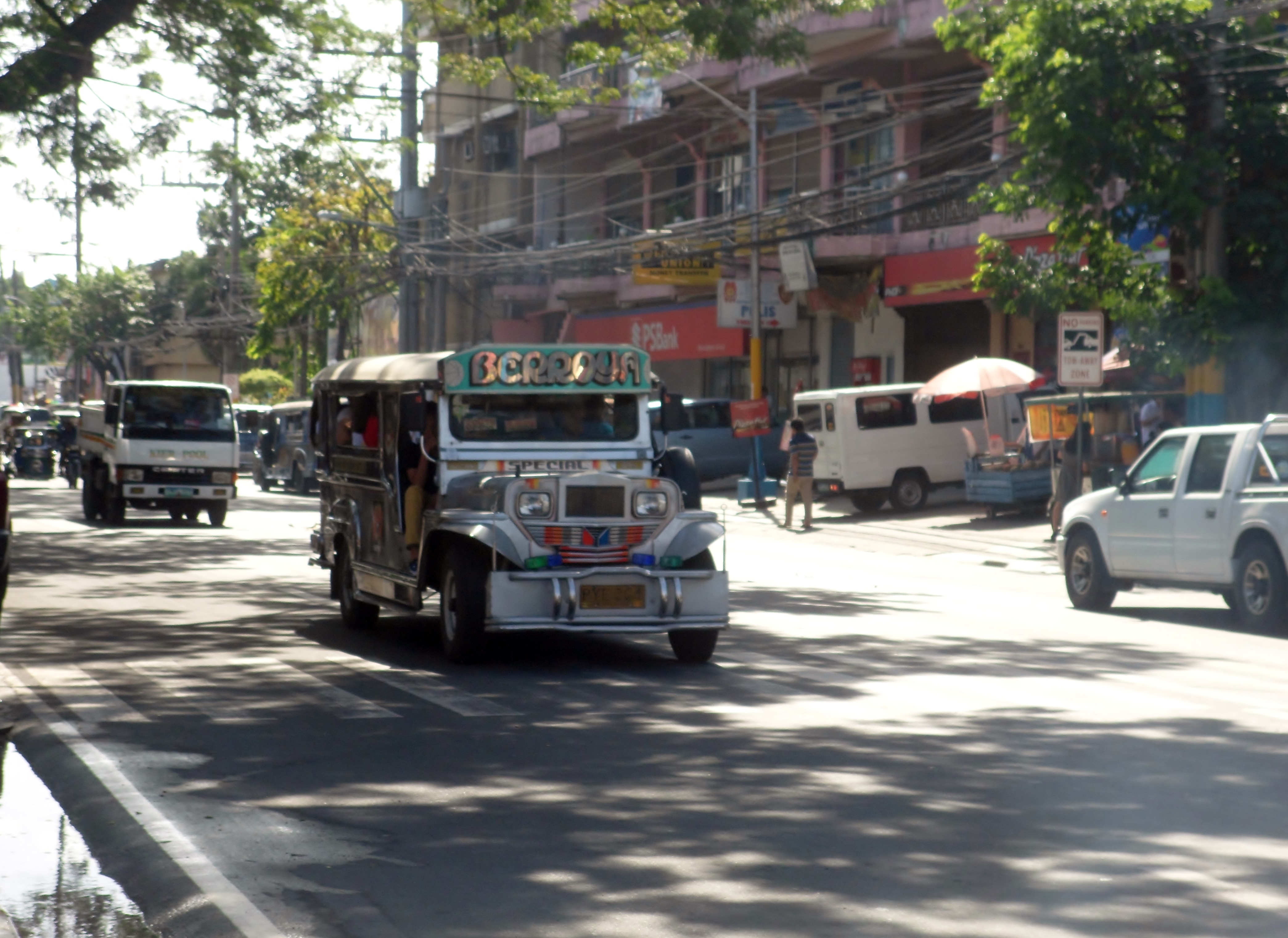 A jeepney in National Road (Daang Maharlika), Putatan, Muntinlupa